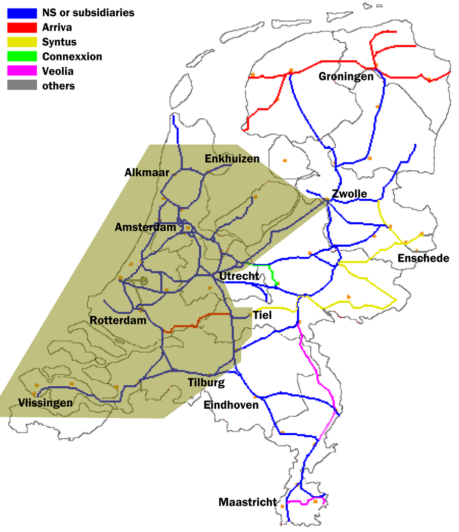 A map showing the area where DD-AR operate (Left of Black Line)